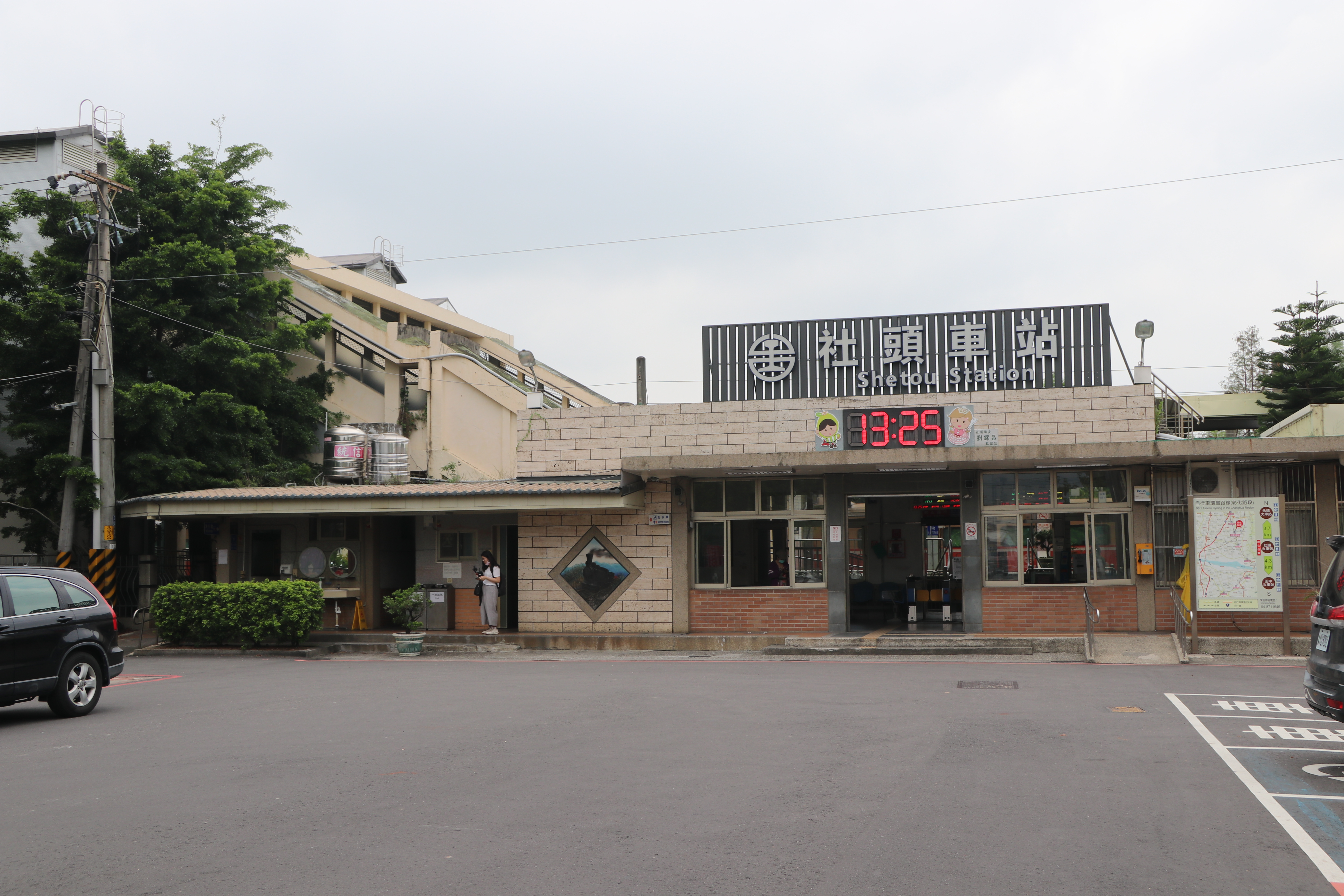 Entrance to Shetou railway station in Shetou, Changhua County, Taiwan.